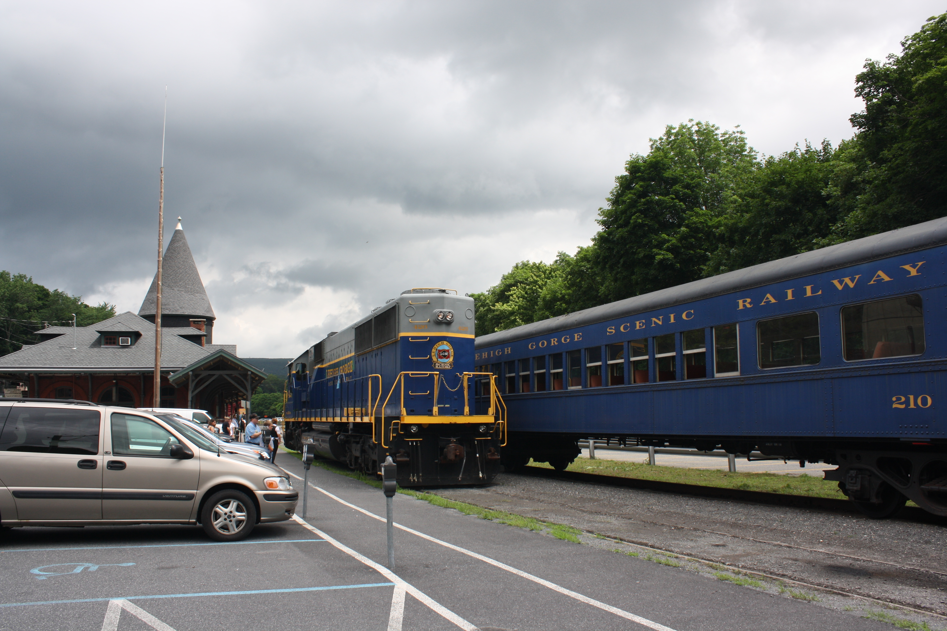 The Central Railroad of New Jersey Station, also known as the Jersey Central Station and Jim Thorpe Station, is a historic railroad station located at Jim Thorpe, Carbon County, Pennsylvania.